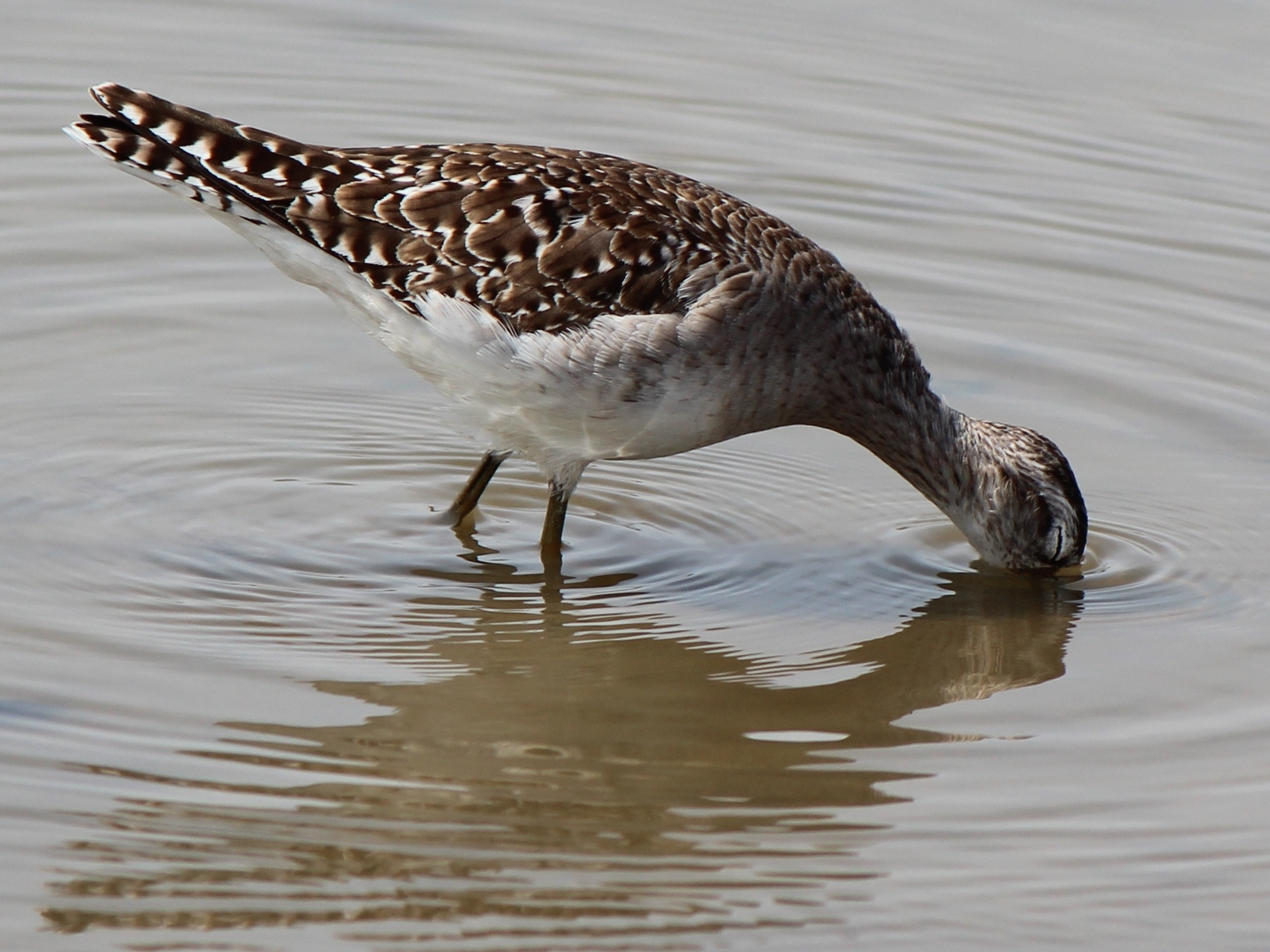 Tringa glareola (Wood Sandpiper) eating in Japan.